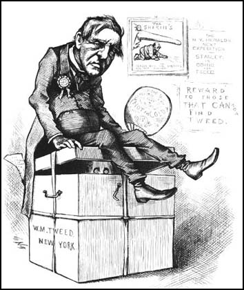 Cartoon of Samuel Tilden and William "Boss" Tweed, 1876.